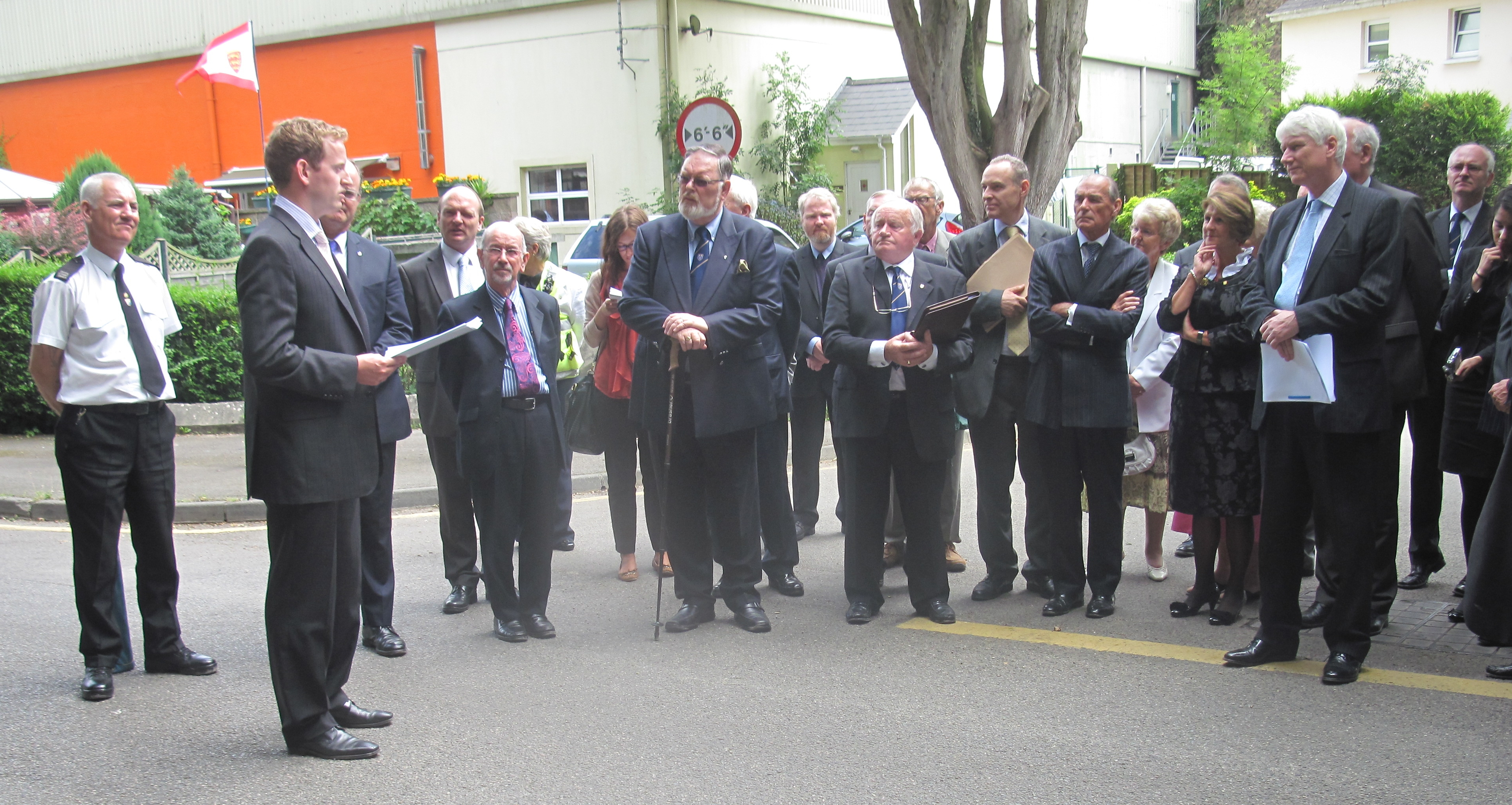 A Visite Royale occurs in a Parish once every six years. The Royal Court of Jersey visits the Parish to sit in session and examine the accounts. The Court also goes on a tour of inspection and adjudicates on matters relating to public roads and footpaths brought to its attention by the parish. Tradition dictates that Visites Royales take place on the first and third Wednesdays in August. In 2012 the Royal Court visited Saint Helier on 1 August. Pictured - HM Solicitor-General presents argument in a case of whether the Parish has the right to remove certain dead trees in Bellozanne Valley.